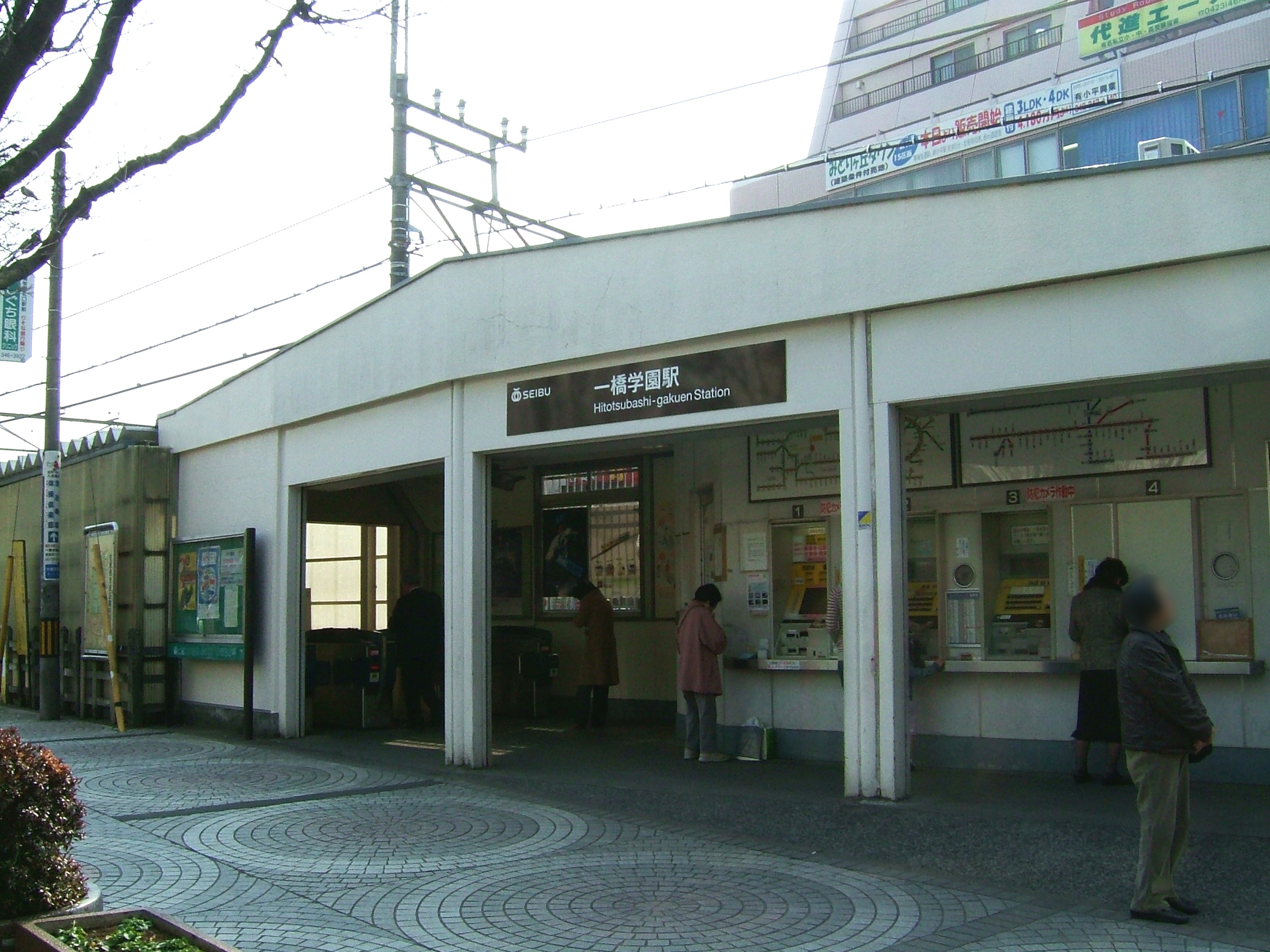 Hitotsubashi-Gakuen Station north side (Seibu Tamako Line)